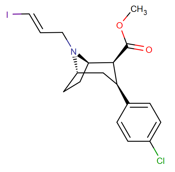 N-3-iodoprop-(2E)-ene-2β-carbomethoxy-3β-(4′-chlorophenyl)tropane … a.k.a [125I]IPT … a phenyltropane research chemical used as a radio-labeling ligand compound for the monoamine transporters in the brain of humans and other forms of life.